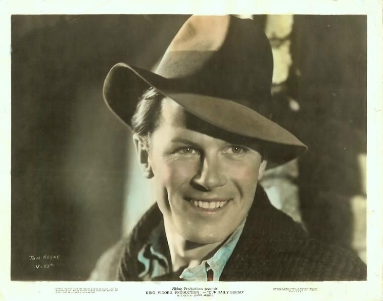 Promotion photo for Our Daily Bread (1934) featuring Tom Keene